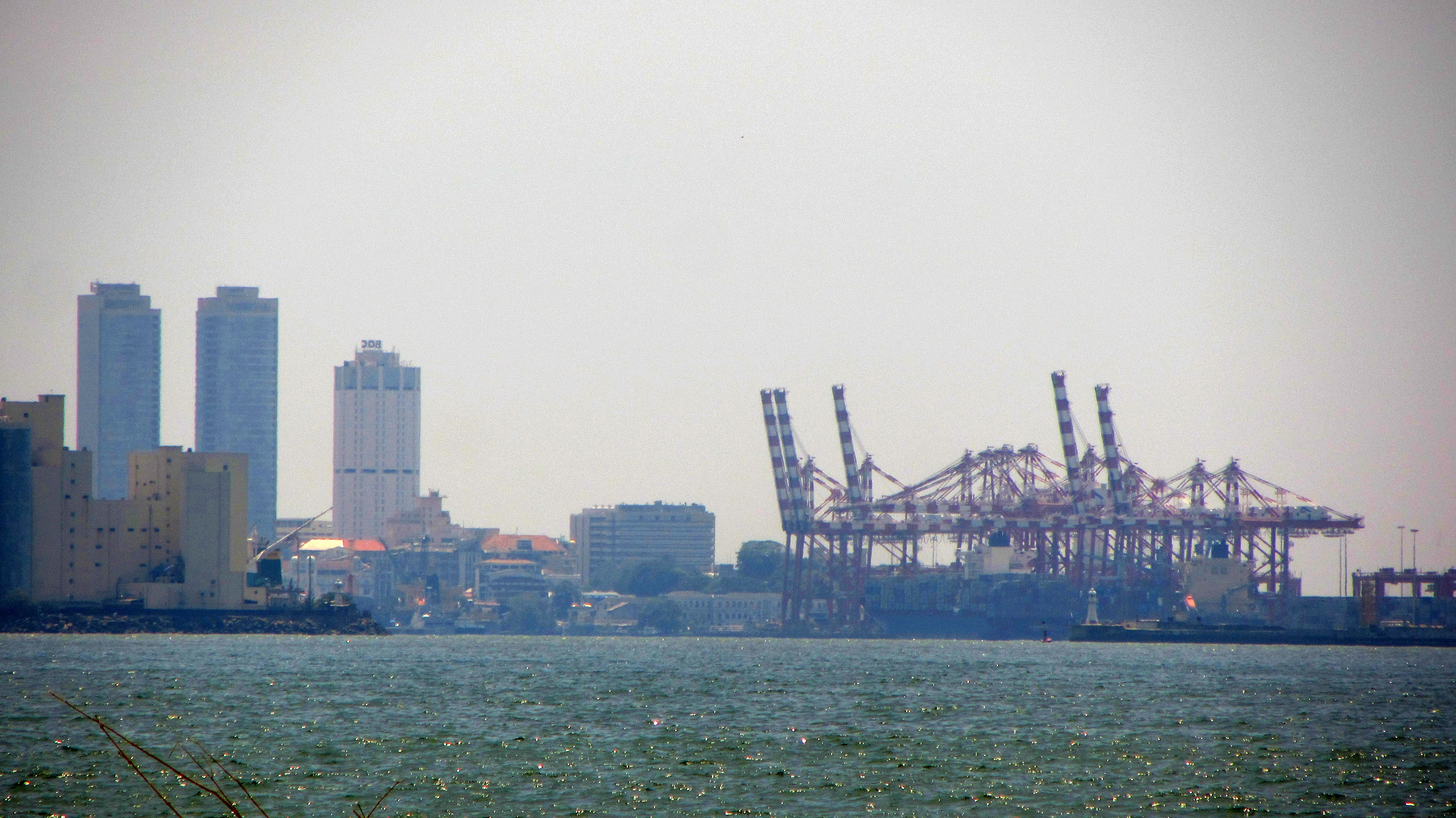 Part of the Colombo Harbour, with the World Trade Centre and Bank of Ceylon buildings in the background, as seen from the Pegasus Reef Hotel in Wattala, Western Province.